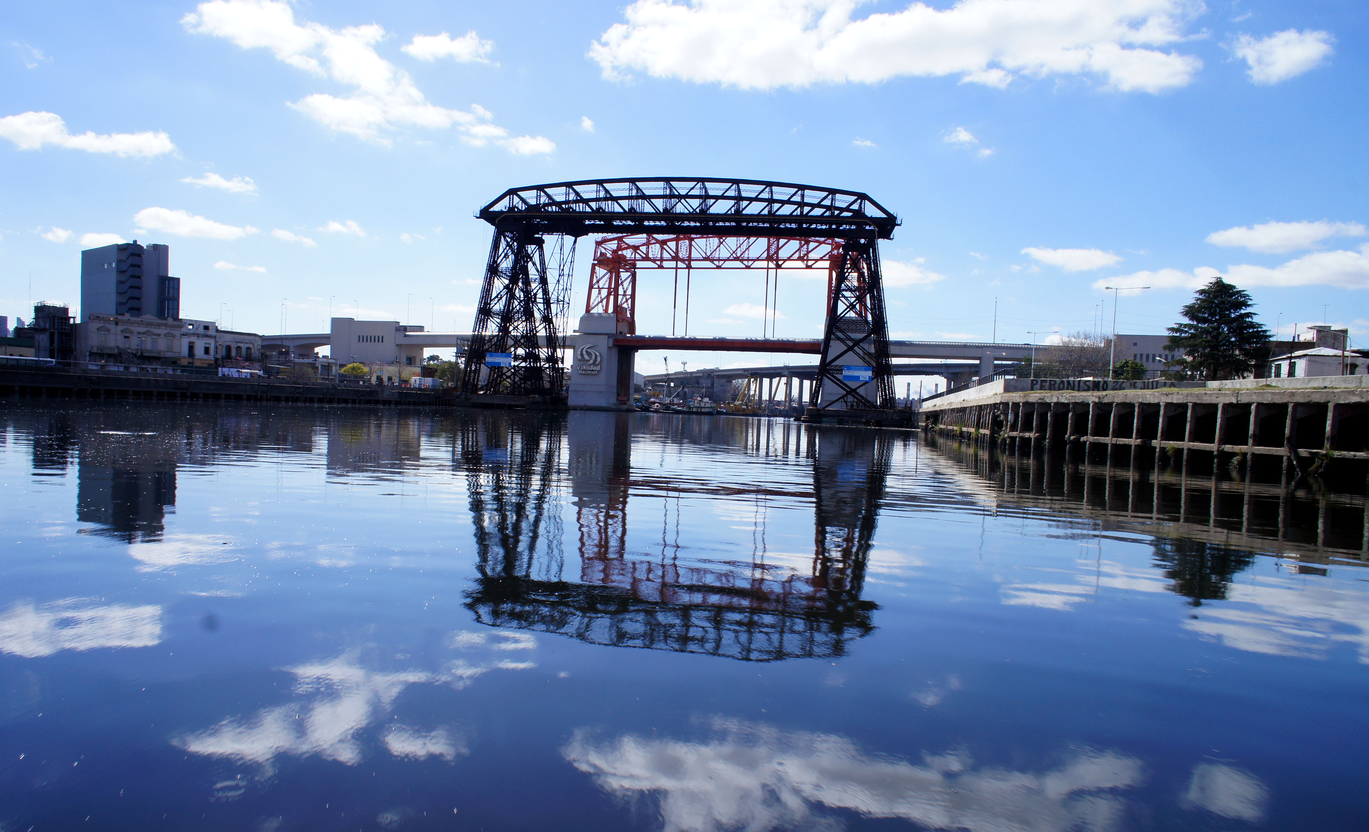 La clásica postal de La Boca.